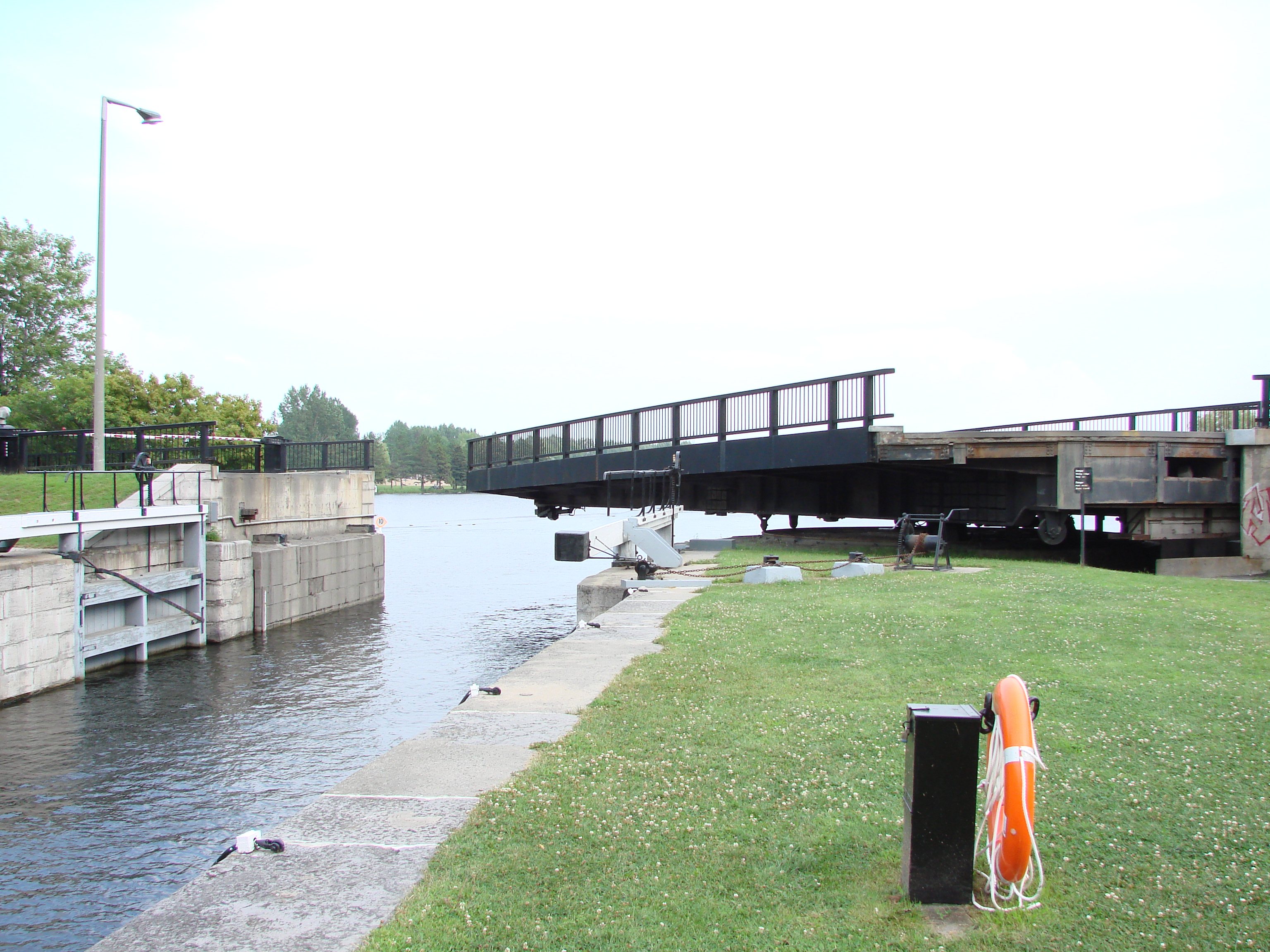 Looking out into Mooney's Bay, from the Rideau Canal in Ottawa. .